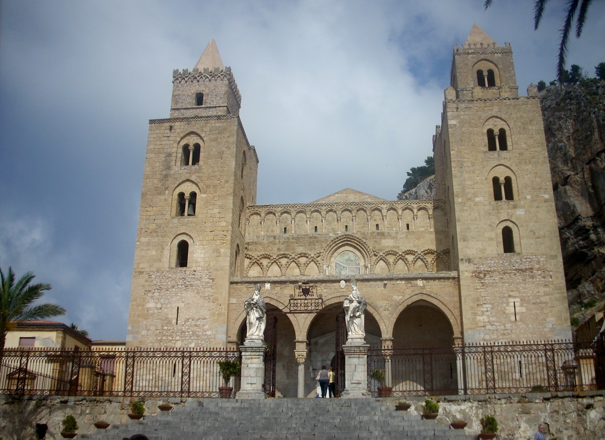 Cefalù Cathedral